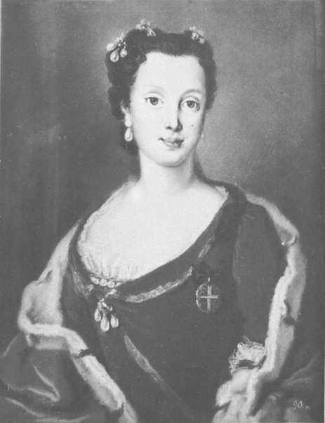 Portrait of Maria Anna Sophia of Saxony (1728-1797)